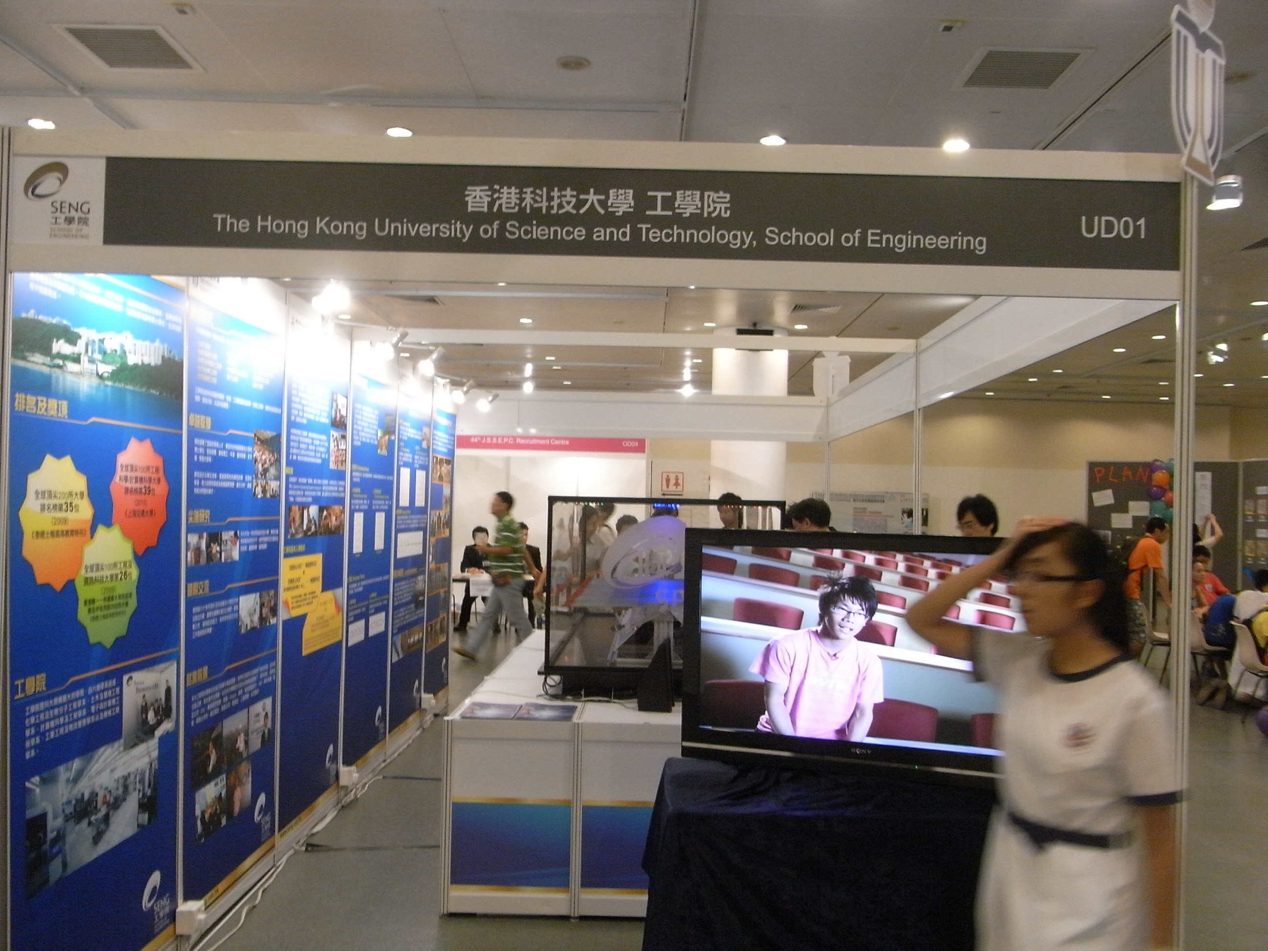 zh:2010年8月 第43屆聯校科學展覽 於香港中央圖書館 參展單位 香港科技大學